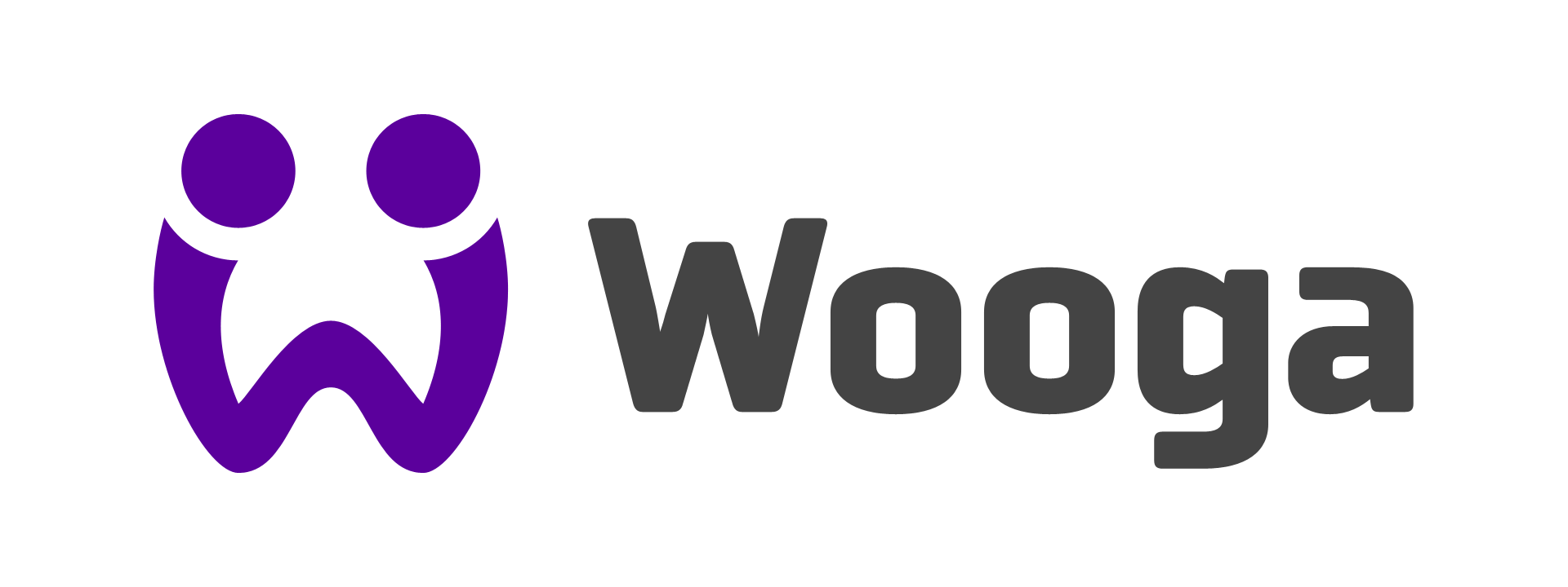 Logo from Wooga, a social network game and mobile developer located in Berlin, Germany.